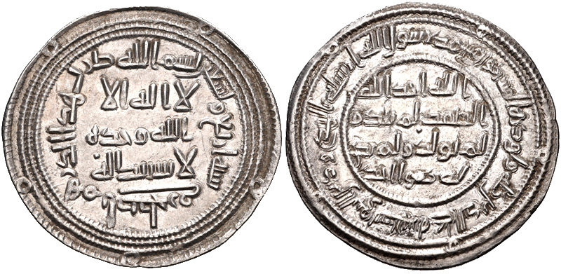 ISLAMIC, Umayyad Caliphate. temp. al-Walid I ibn 'Abd al-Malik. AH 86-96 / AD 705-715. AR Dirham (29mm, 2.93 g, 3h). Istakhr mint. Dated AH 94 (AD 712/3). Klat 76; Album 128; ICV 238. EF.